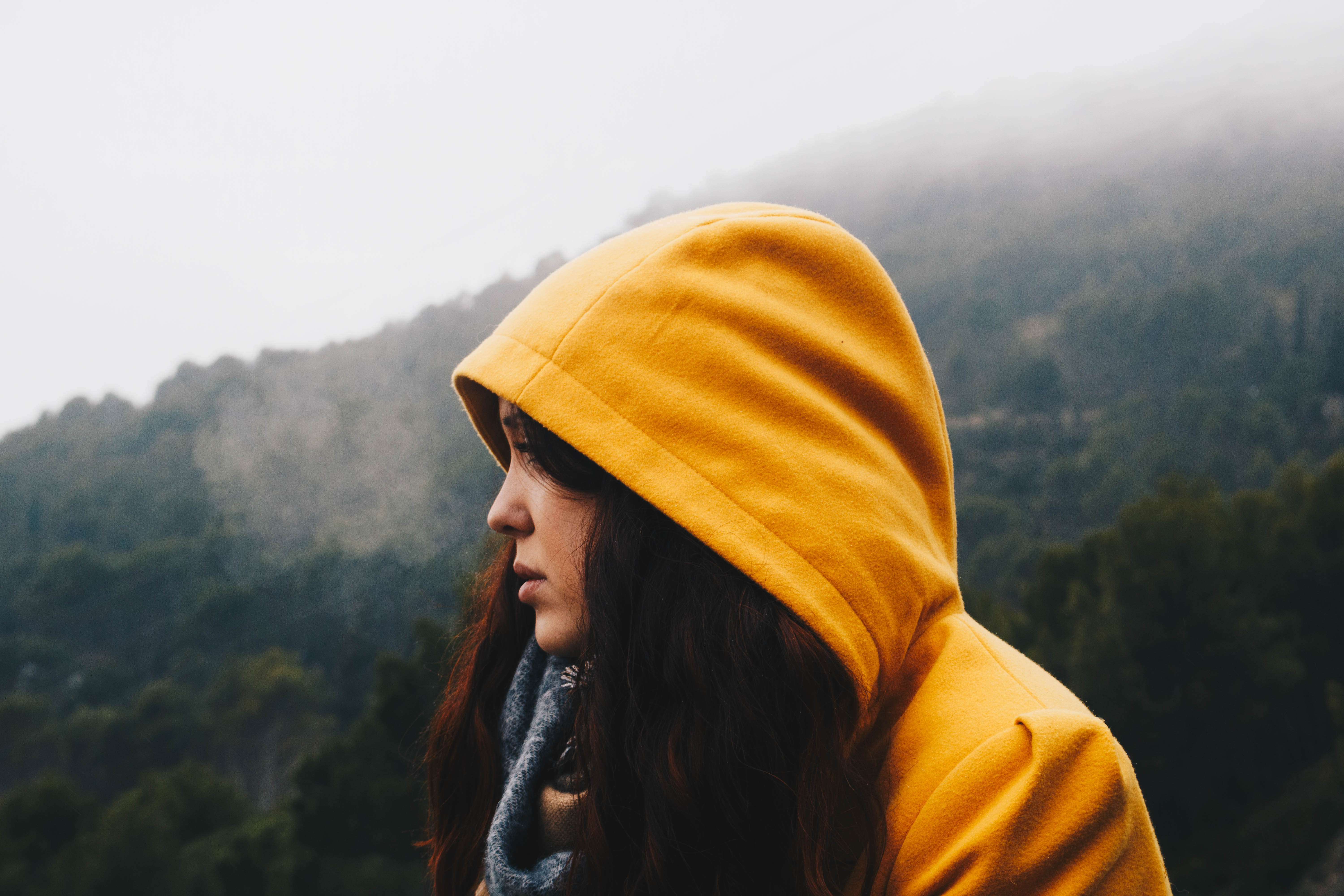 Sacedón, Spain